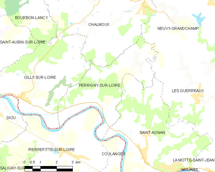 Map of French municipality